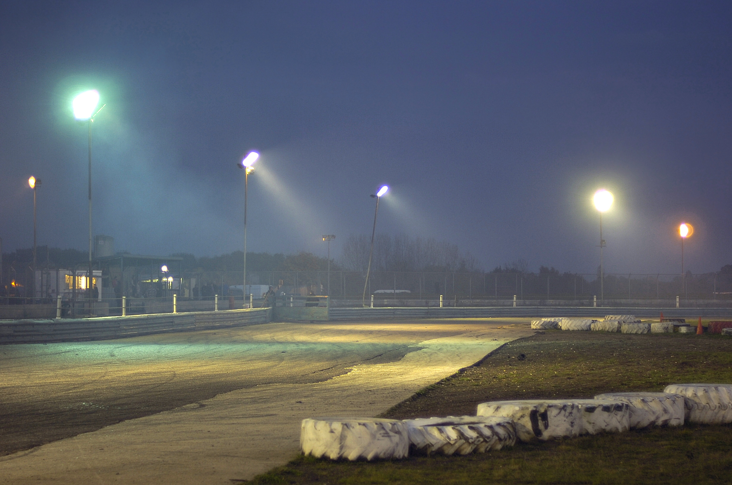 Part of the track at Swaffham Raceway, illuminated by floodlights.